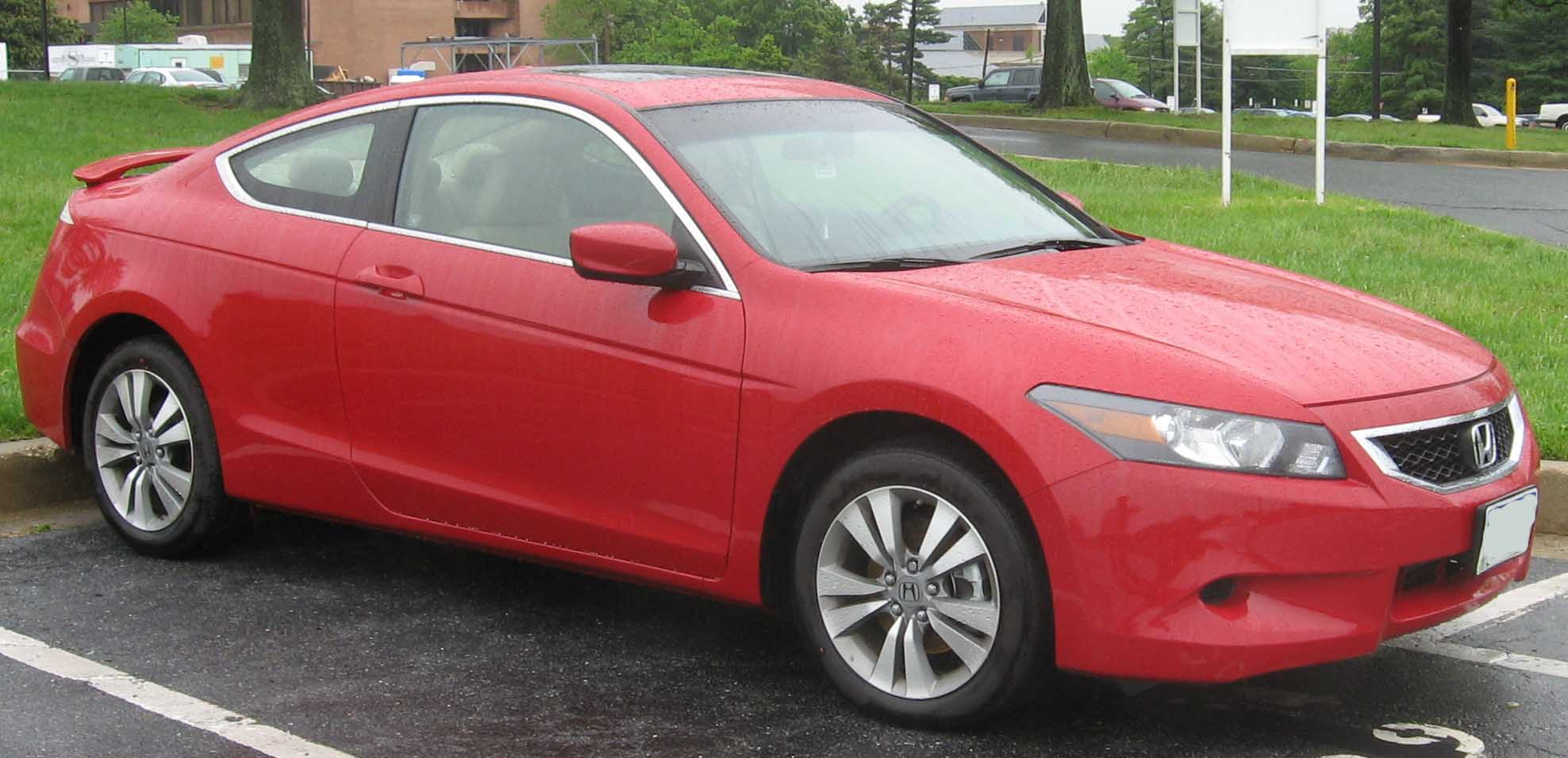 2008 Honda Accord photographed in College Park, Maryland, USA.